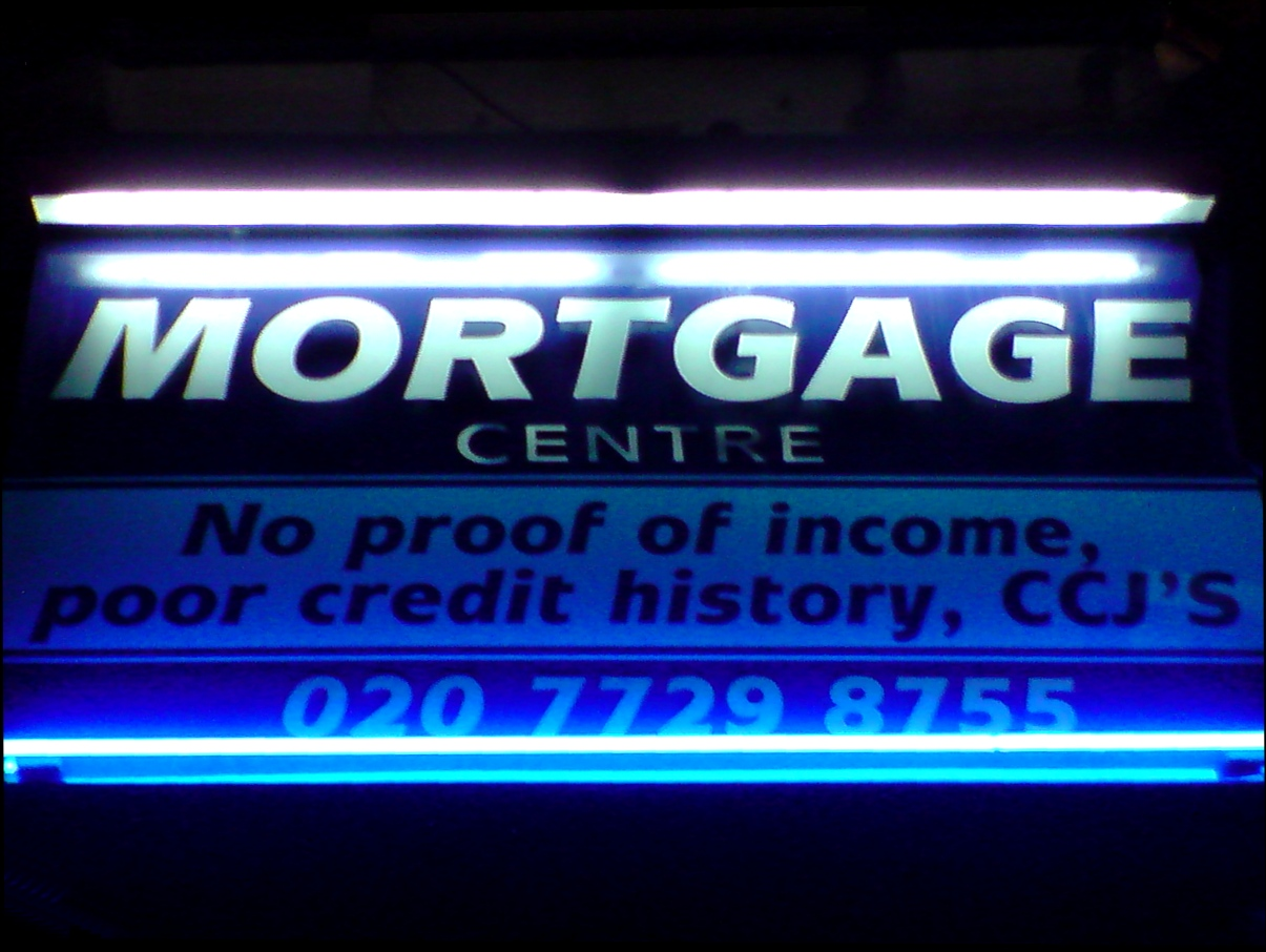 Sign of a mortgage centre in East London